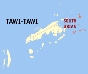 Map of the Tawi-Tawi showing the location of South Ubian